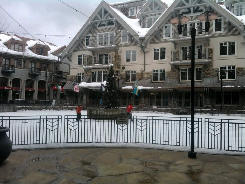 Ice Rink at Mountain Village, Colorado